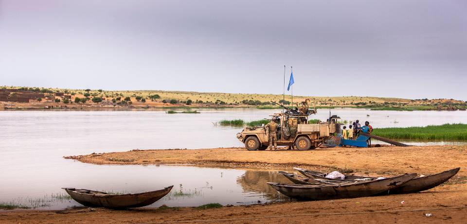 Dutch MINUSMA troops, UN mission Mali 02 (December 2014)